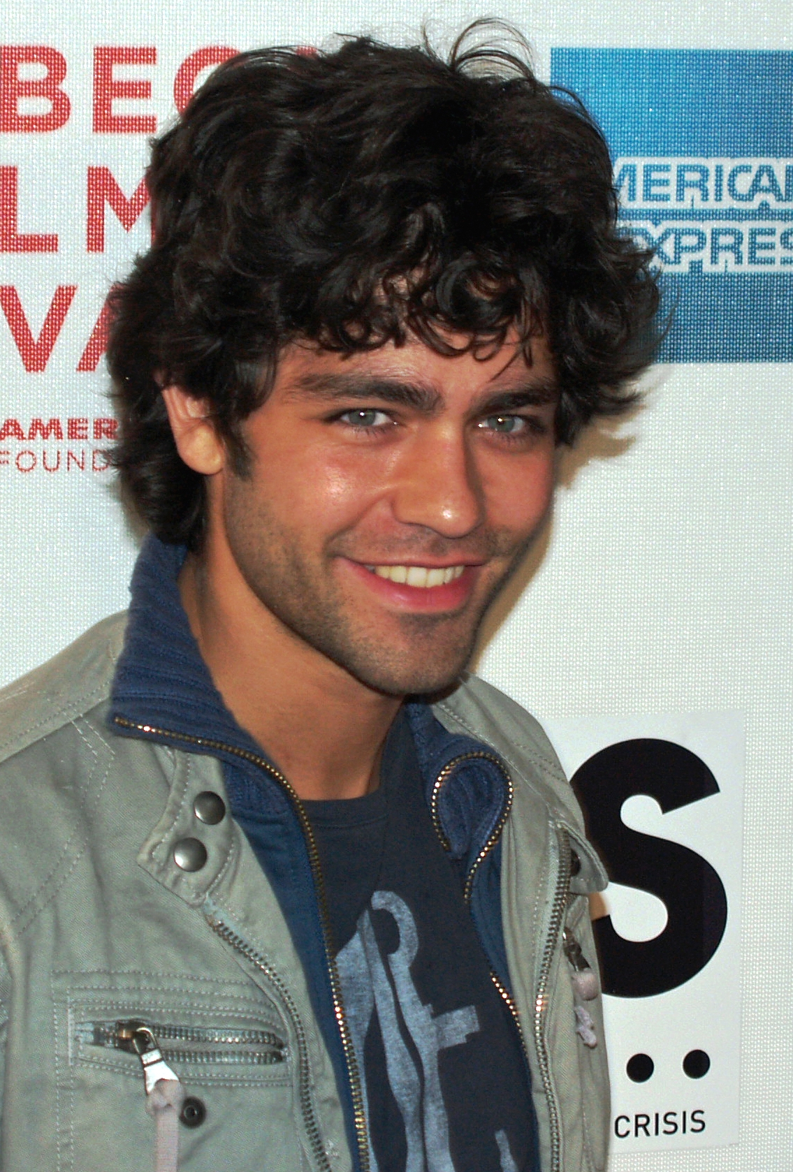 Adrian Grenier at the 2007 Tribeca Film Festival.